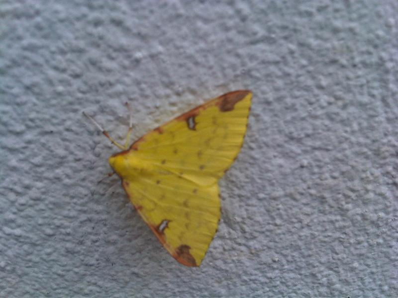 Brimstone Moth (Opisthograptis luteolata) in Botany Bay, England.